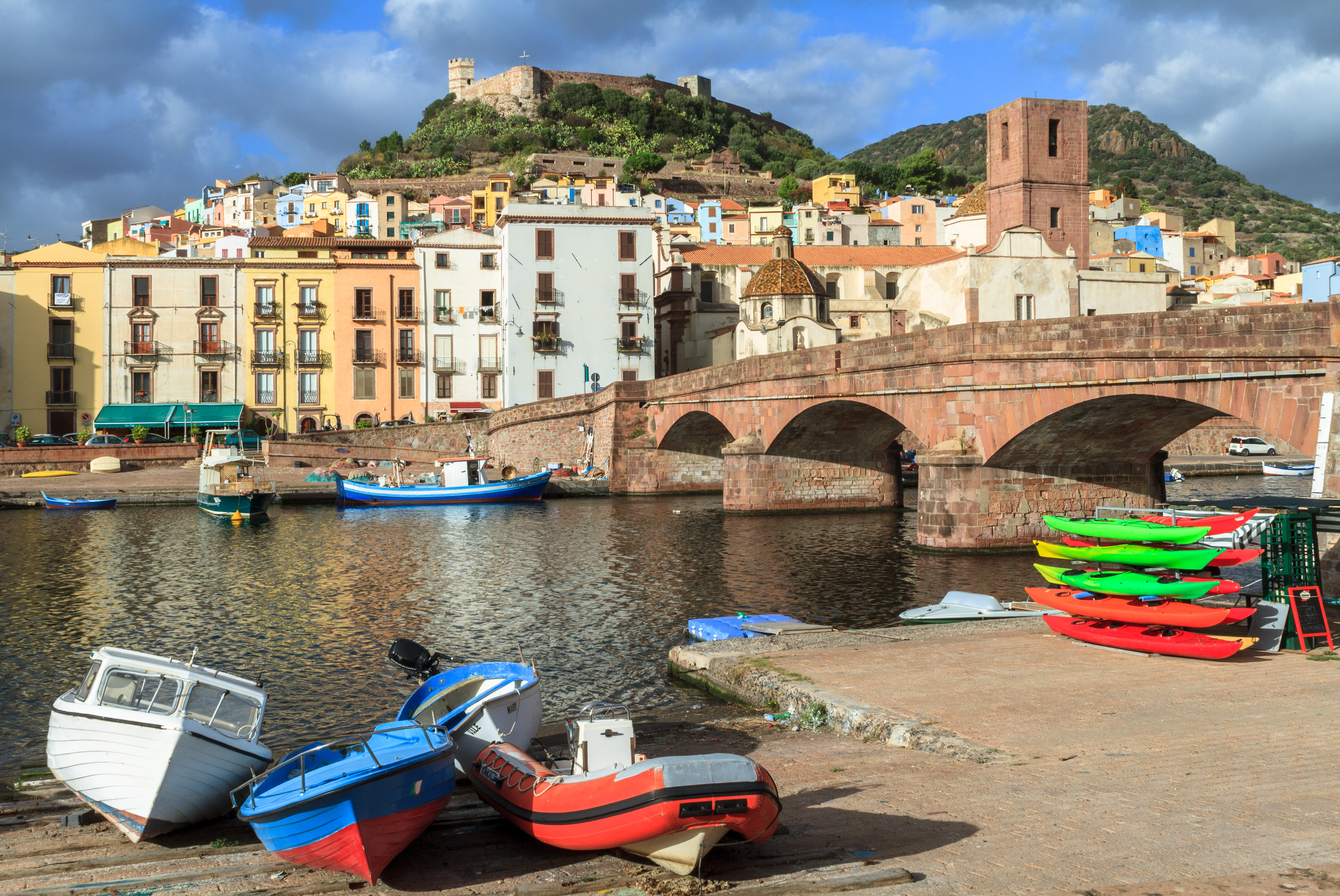 Old bridge with Bosa on the background This is a photo of a monument which is part of cultural heritage of Italy.